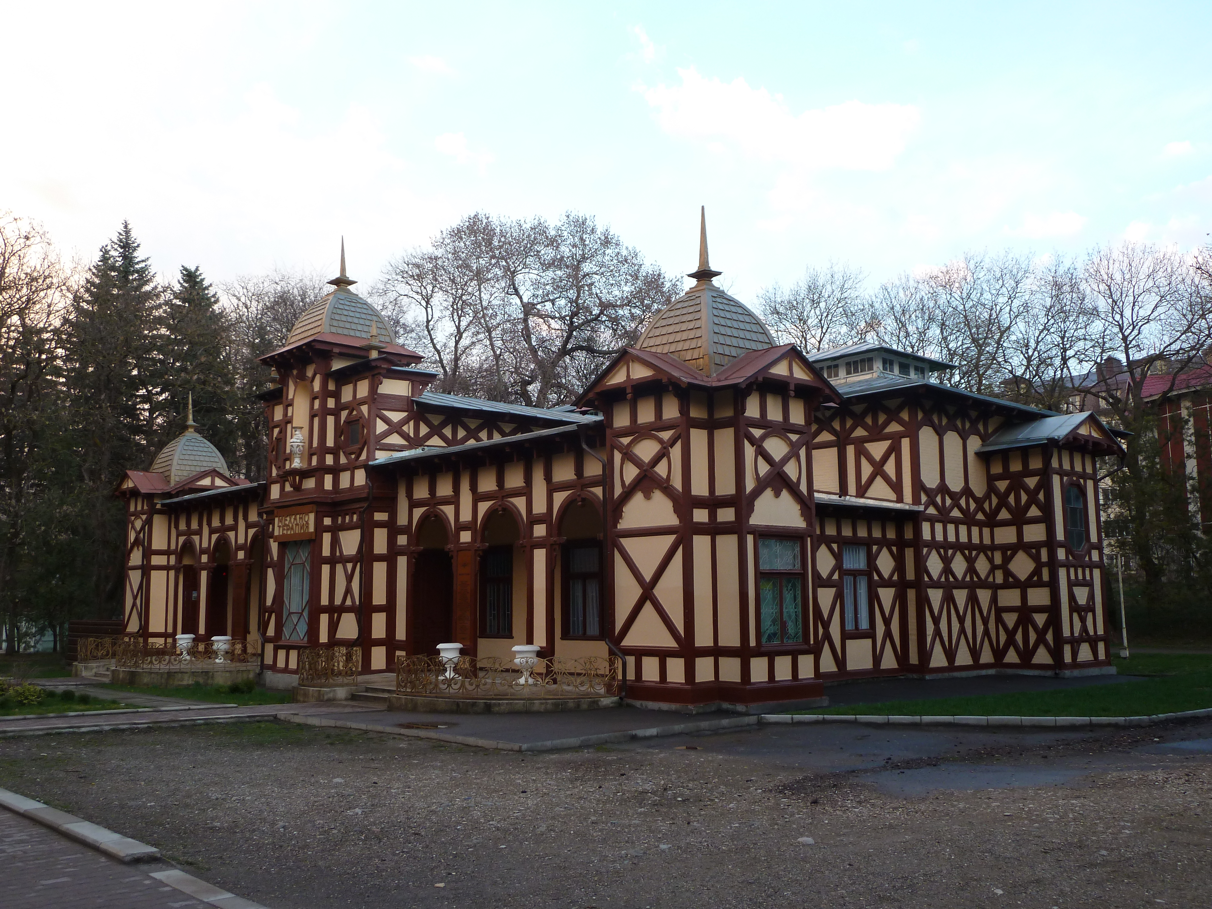 Tsander Institute in Yessentuki